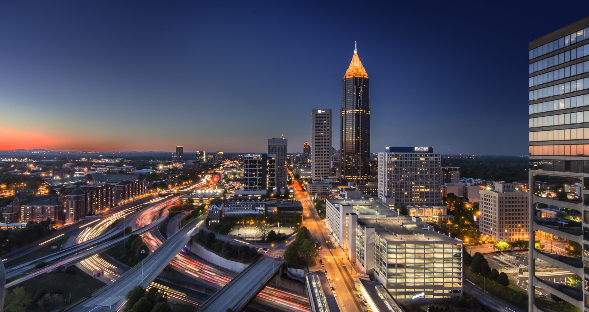 Midtown Atlanta